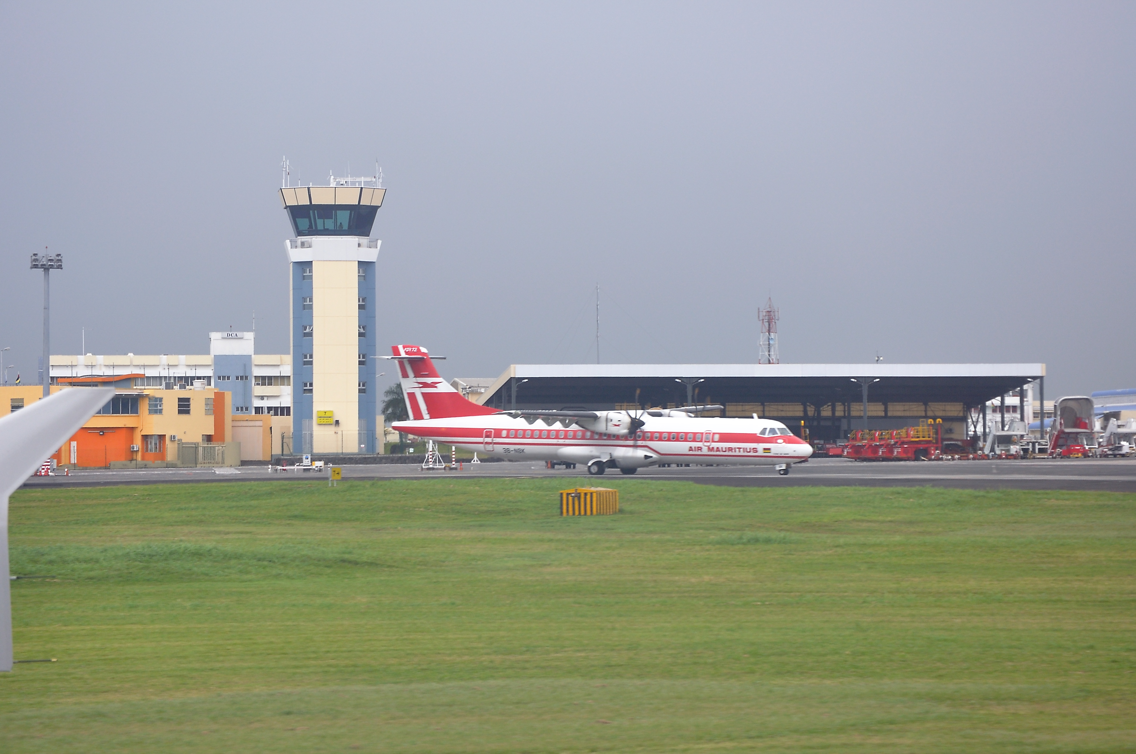 Mauritius, Taxiing to take-off position at Sir Seewoosagur Ramgoolam International Airport